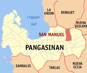 Map of Pangasinan showing the location of San Manuel